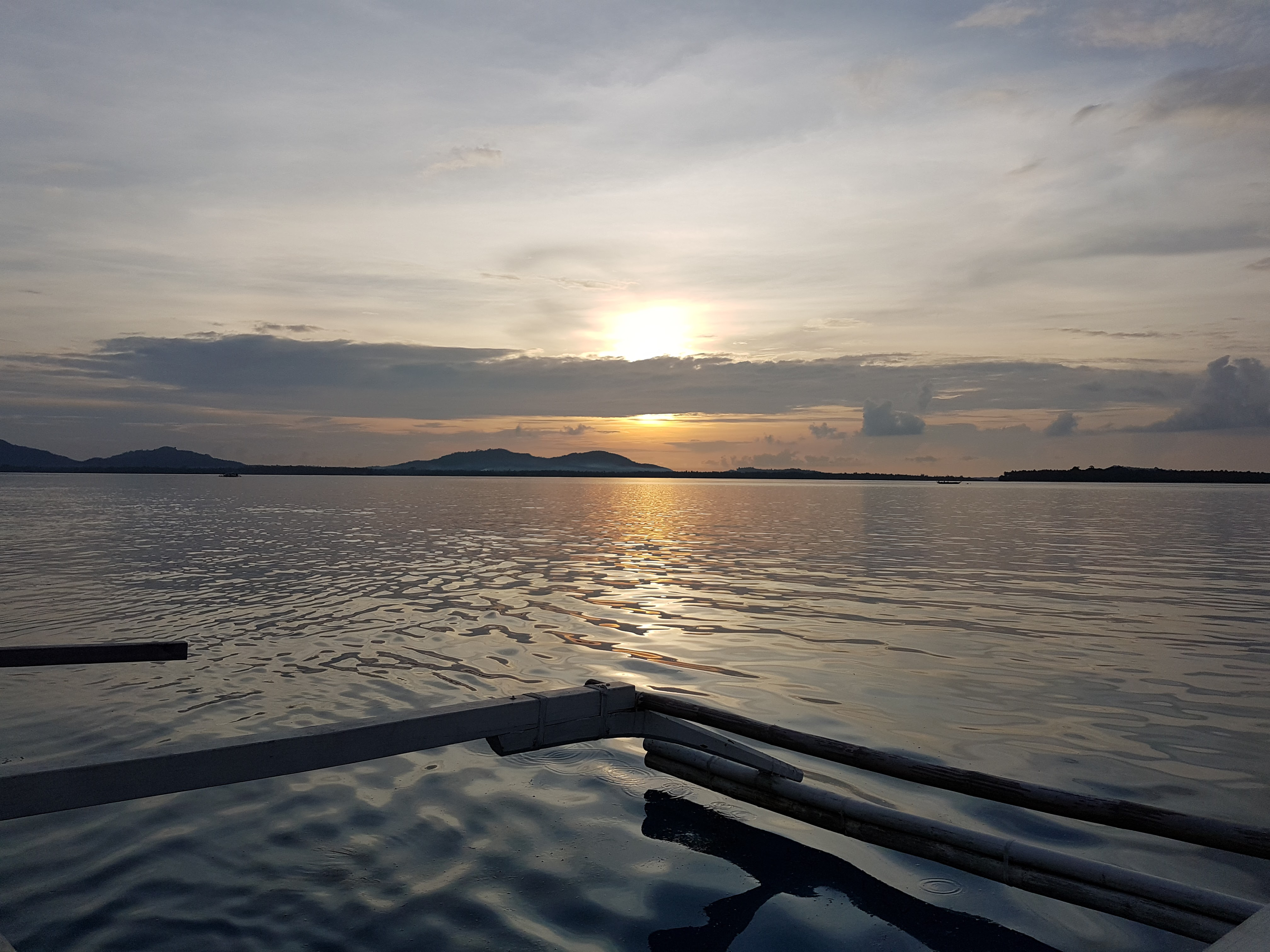 View of Balabac Strait on Sunset during Winter Solstice. Photo taken by Schadow1 Expeditions during its mapping expedition of Balabac, Palawan.